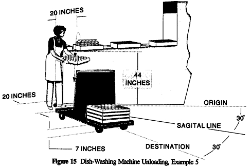 diagram illustrating ergonomics analysis on source's preceding page